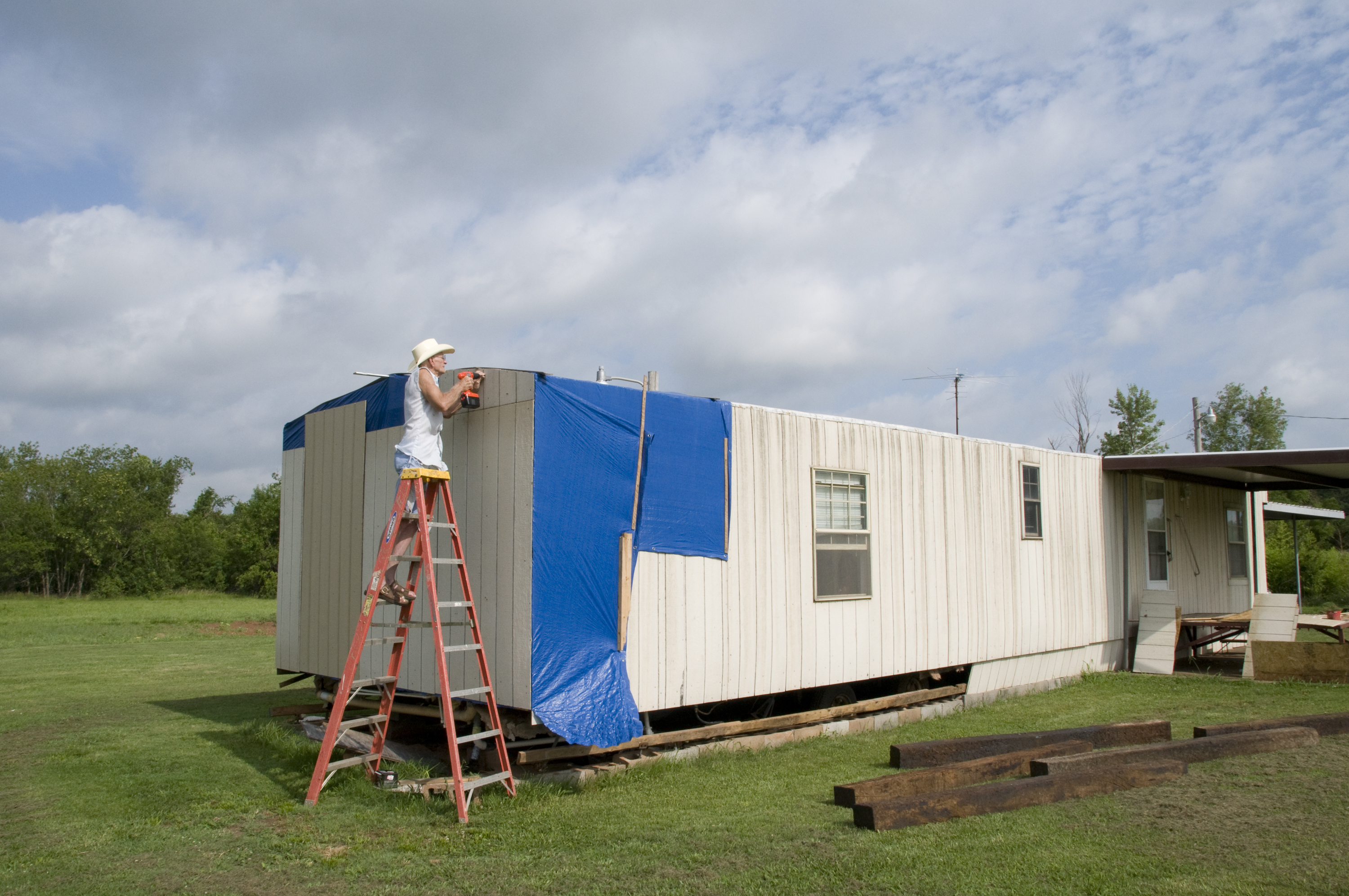 Oklahoma City, OK, June 12, 2010 -- A resident of Oklahoma City repairs the side of his mobile home after a tornado-driven winds ripped the siding off his home. FEMA is working with local, state and other Federal agencies to assist residents affected by the tornadoes which hit the state in early May 2010. Photo by Patsy Lynch/FEMA